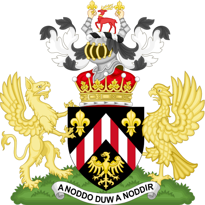 coat of arms of the earl of Snowdon Arms. Sable on a Chevron Argent between in chief two Fleurs-de-lis and in base an Eagle displayed Or four Pallets Gules. Crest. A Stag statant Gules attired collared and unguled Or between two Arms embowed in armour the hands proper each grasping a Fleur-de-lis or. Supporters. On the dexter side a Griffin and on the sinister side an Eagle, each with wings elevated and addorsed Or. Motto. A Noddo Duw A Noddir (What God wills will be). Cracroft's Peerage